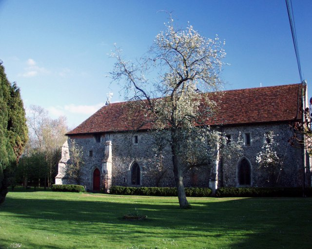 Ruins of Clare Priory.